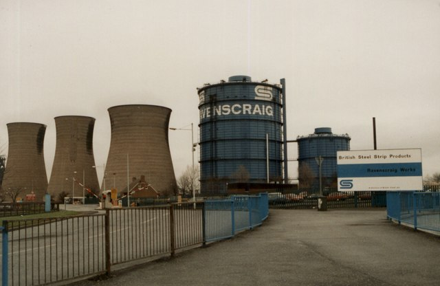 Ravenscraig Steel Works - shortly before it close in the mid-1990s